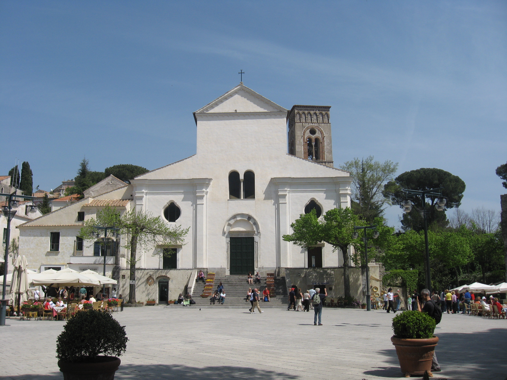 The Duomo of Ravello